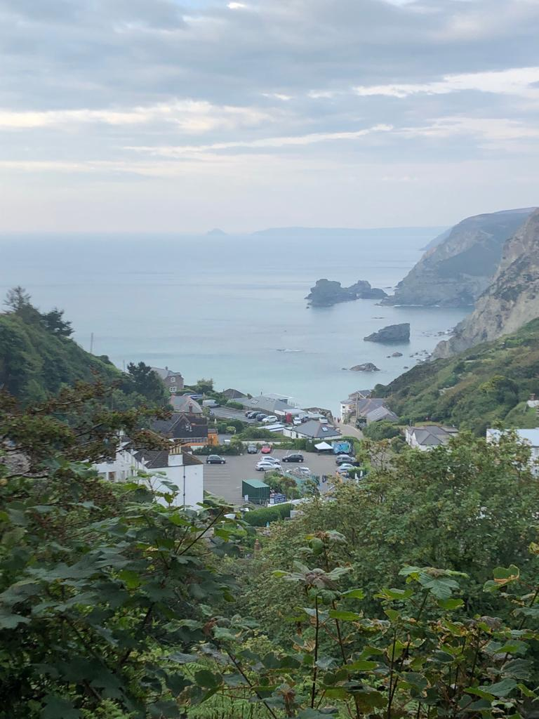 Trevaunance Cove, St.Agnes, Cornwall taken from Wheal Friendly Kernowek: Porth Trefownans, Breanek, Kernow dhyworth Hwel Friendly